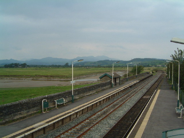 Kirkby-in-Furness railway station, Cumbria, England.